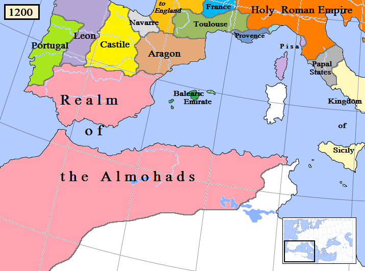 Map of the Almohad dynasty/empire in North Africa/Iberia, AD 1200. (Partially based on Wikipedia Commons map "File:NE 1200ad.jpg".)